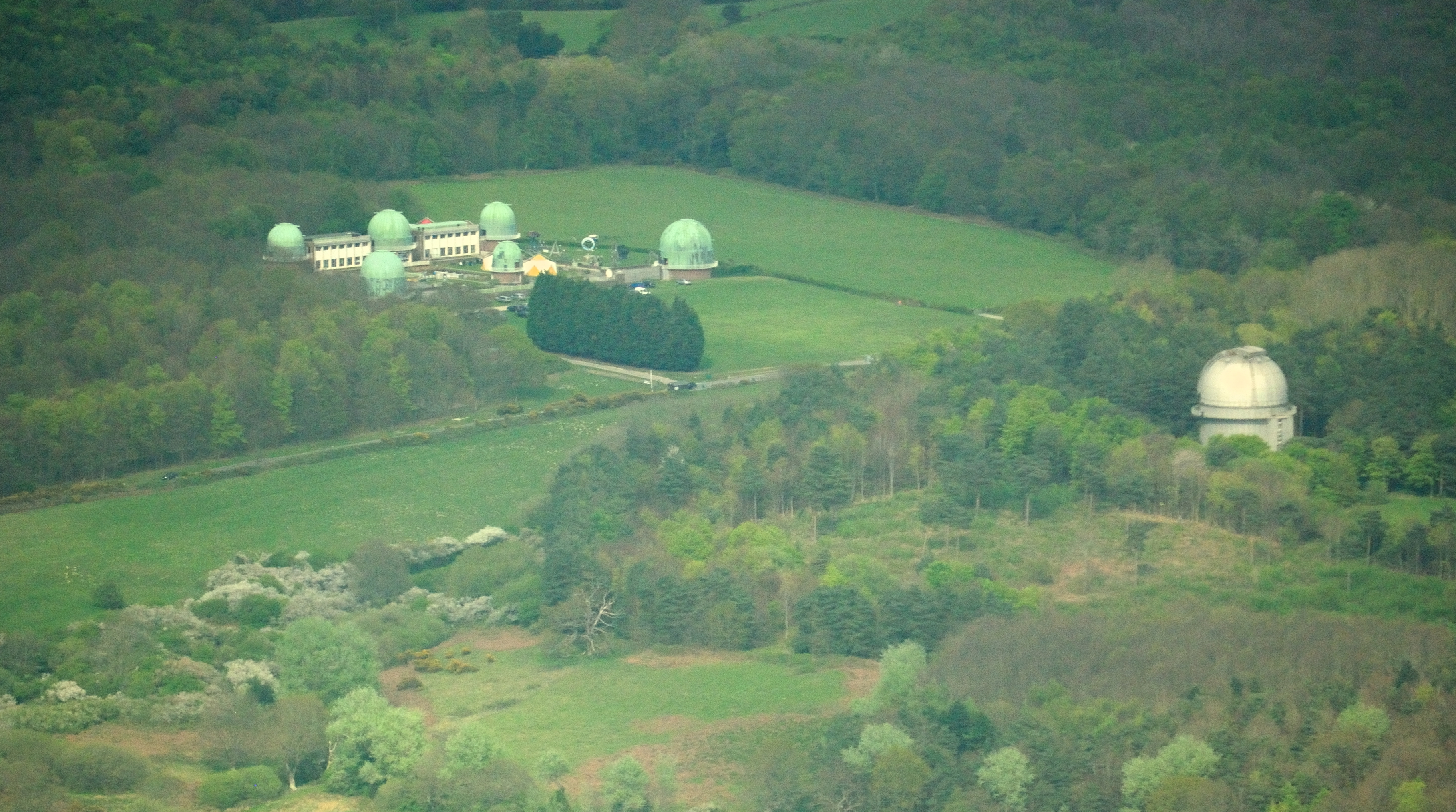 Aerial view of the Observatory Science Centre on the Herstmonceux castle grounds (East Sussex, England). Currently a science exhibit, this site was home to the Royal Greenwich Observatory from 1948 until 1990. Nikon D60 f=200mm f/6.3 at 1/2500s ISO 800. Processed using Nikon ViewNX 1.5.2 and GIMP 2.6.6.